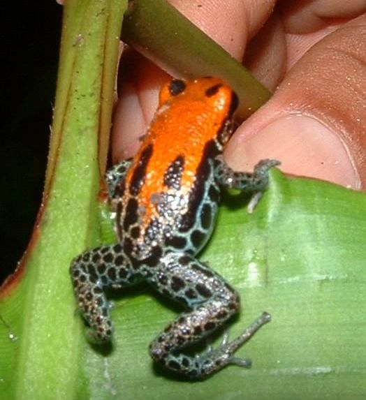 Wild specimen of the arrow-poison frog, Dendrobates reticulatus; easternmost Peru, near Amazon River.